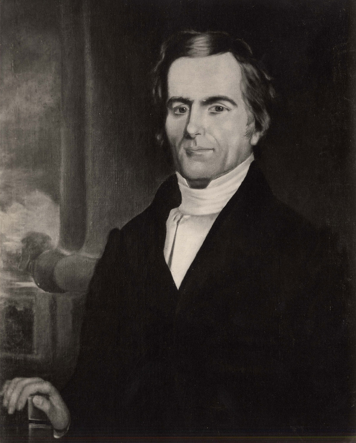 Image of Andrew Wylie (college president) (1789-1851)